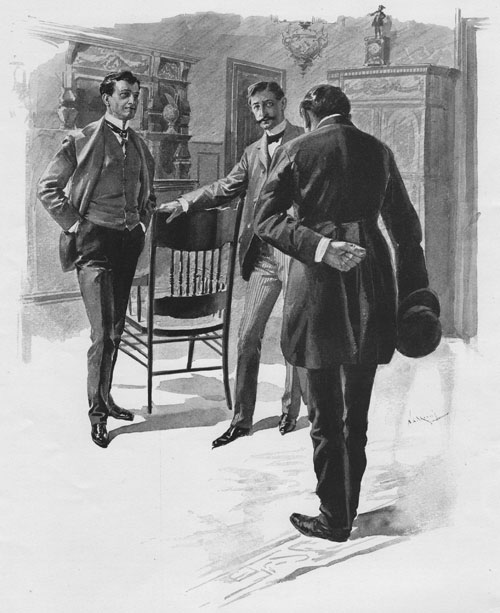 Colliers Illustration of E. W. Hornung's Raffles short story, "The Return Match", by E. V. Nadherny